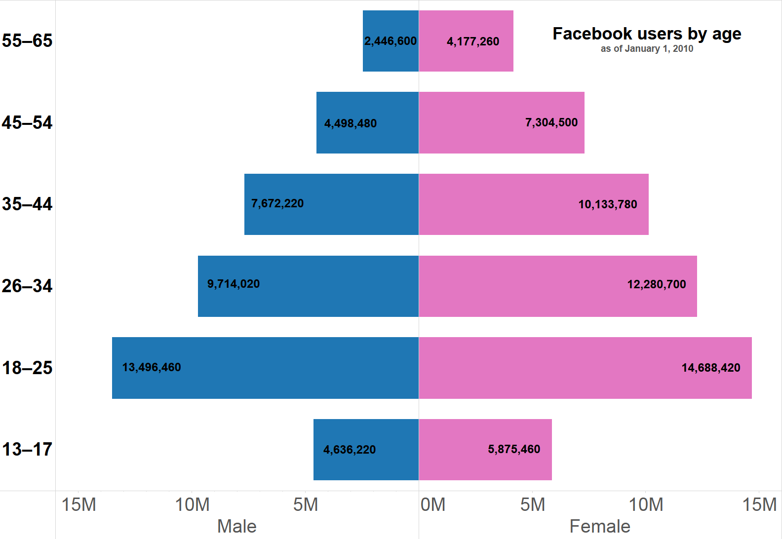 Population pyramid of Facebook users by age as of January 1, 2010 from [1]. Created with Tableau Software